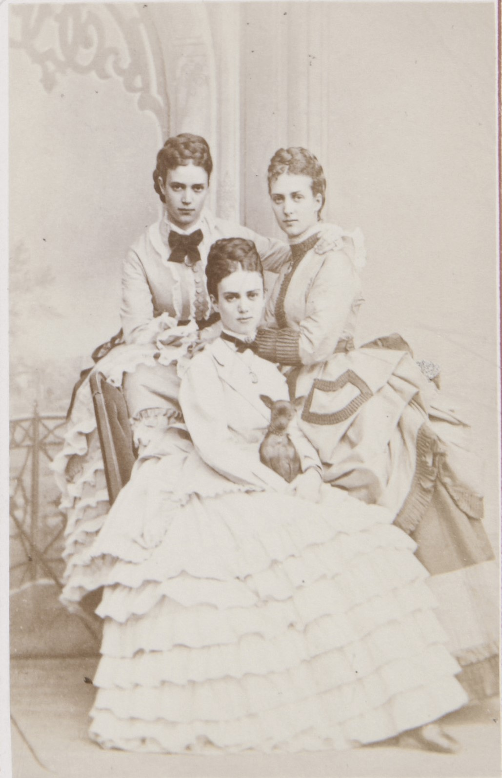 Alexandra of Denmark, Queen consort of England, with her sisters: Dagmar and Thyra.